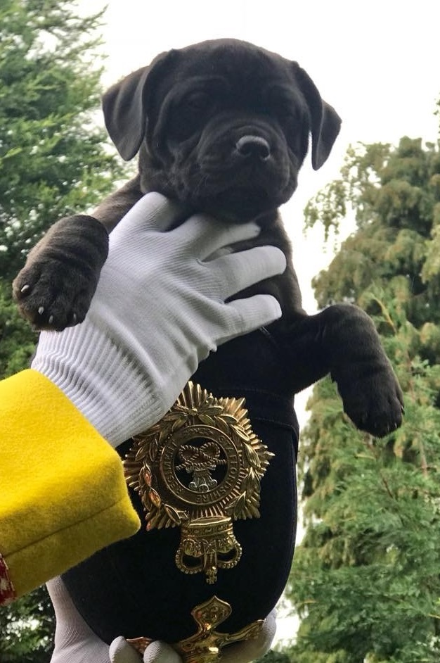 Photo of Watchman VI.